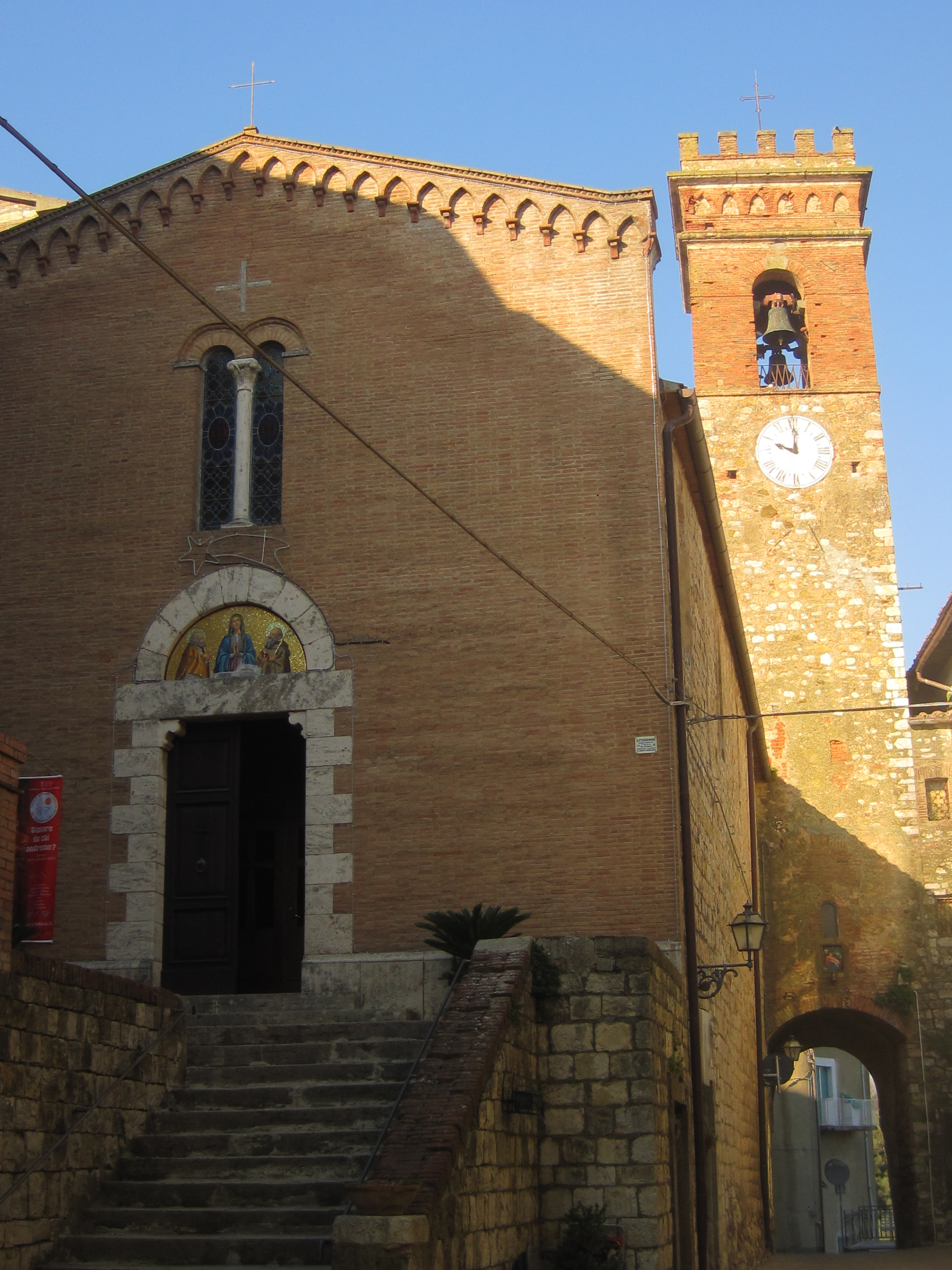 Church of Sant'Egidio in Giuncarico, Grosseto